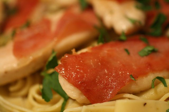 Chicken saltimbocca